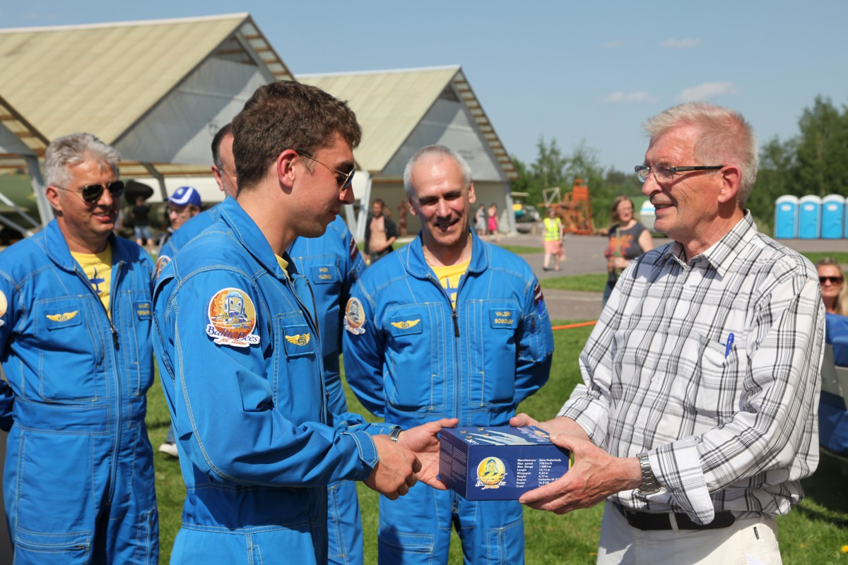 Estonian Aviation Museum during Estonian Aviation Days 2014. Mati Meos and Baltic Bees captain Artyom Soloduha with his team.